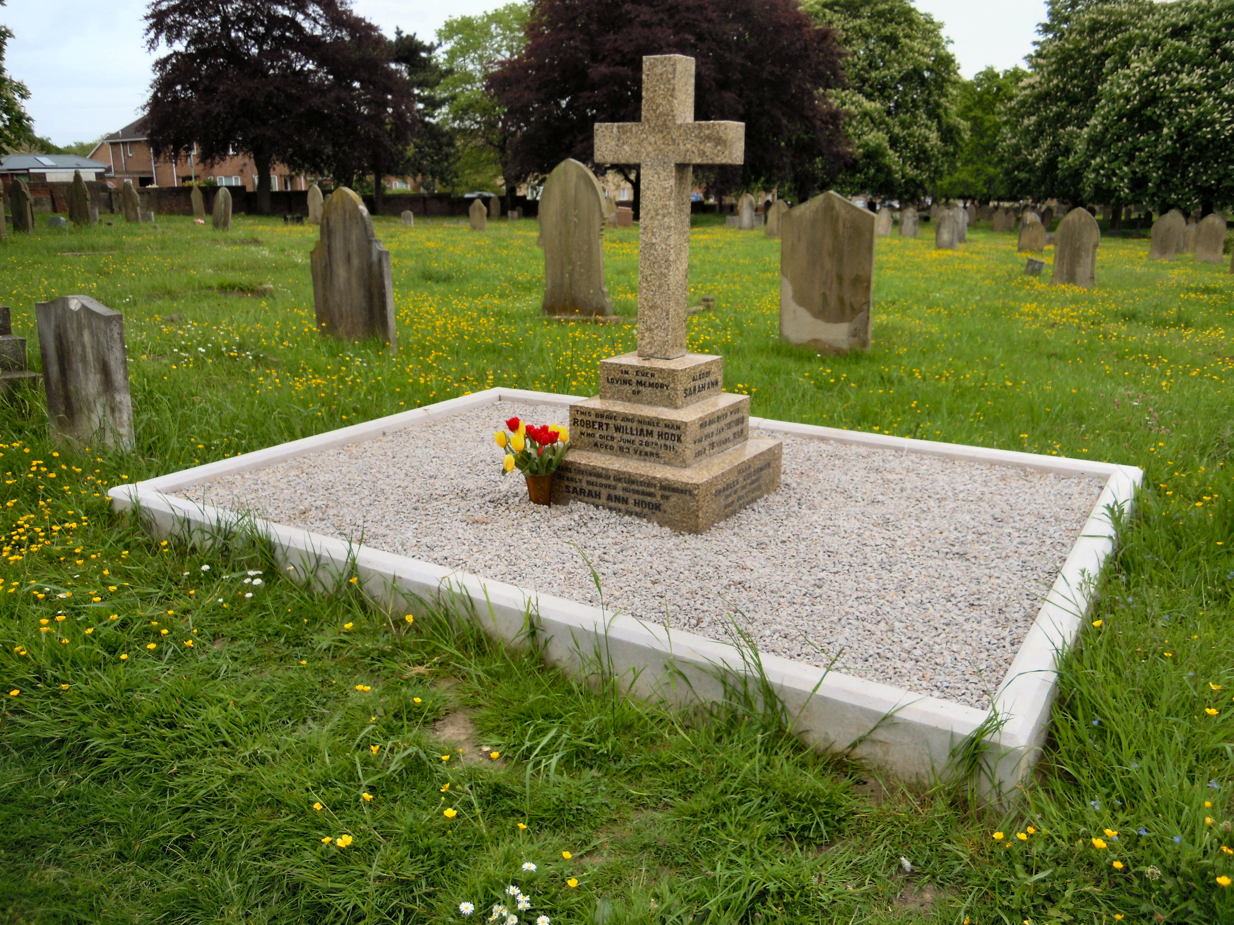 The grave of Robert William Hook (1828-1911) in Lowestoft Cemetery